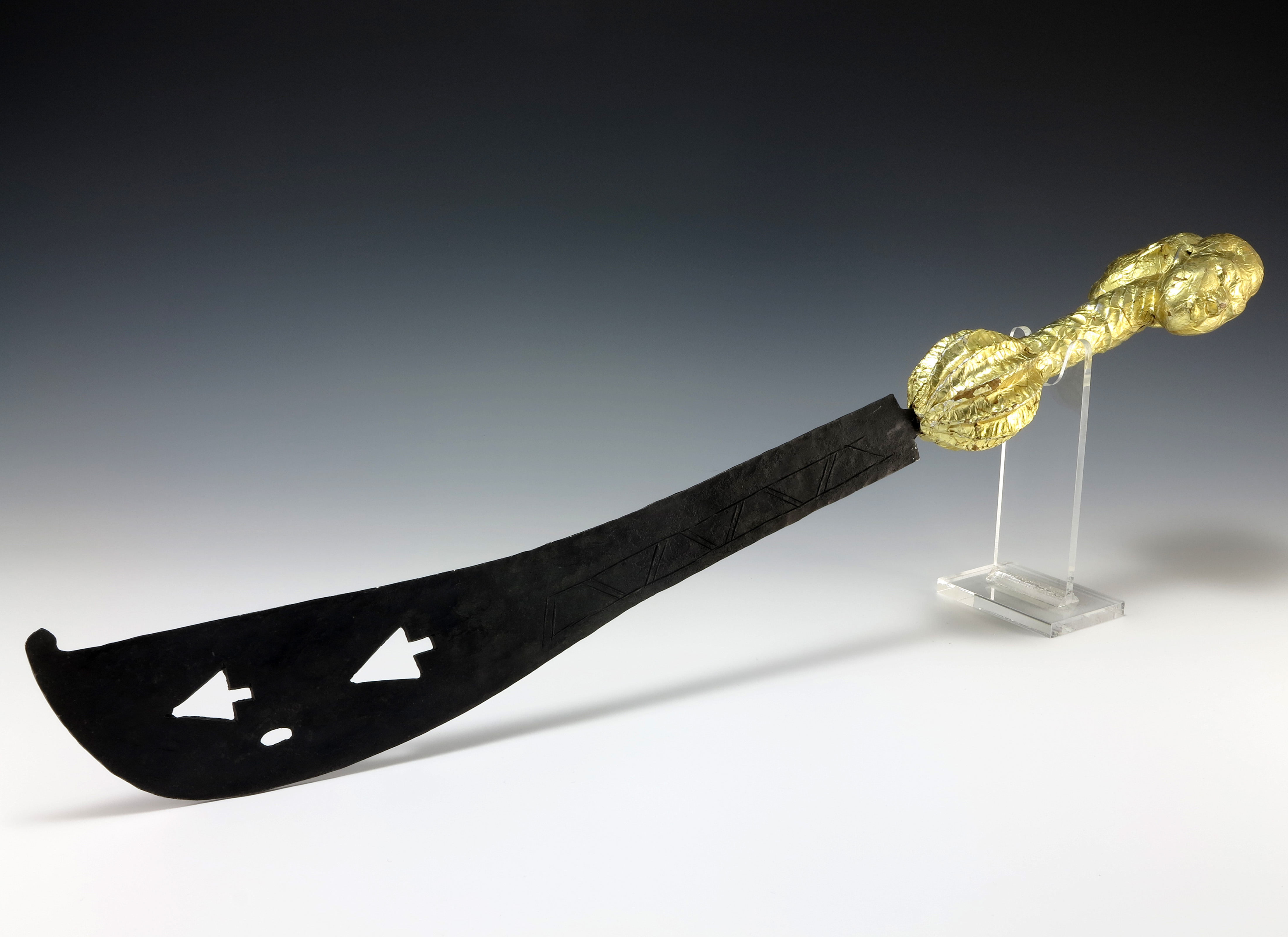 Ceremonial Sword made of iron painted black with two tree openings and one small oval opening near large end of the blade. The hilt is made from wood, carved with two heads at the end. The hilt is covered in a gold foil. Gift of Samuel Ernest Quarm, Ambassador of Ghana, 1975.